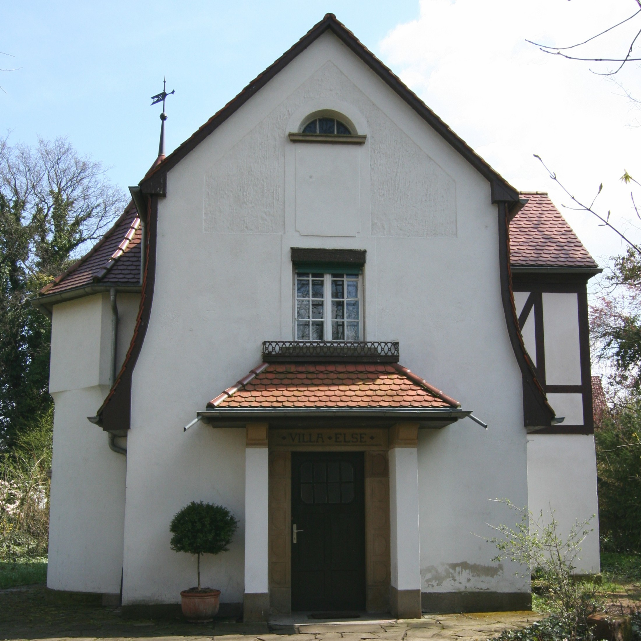 The Alexanderhäuschen in Weinsberg from the West